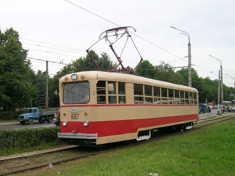 The LM-49 museum tramcar with tram-friend tourists is going along Gagarin avenue, Nizhni Novgorod, Russia